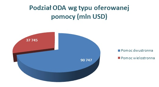 Podział ODA wg typu oferowanej pomocy (mln USD)